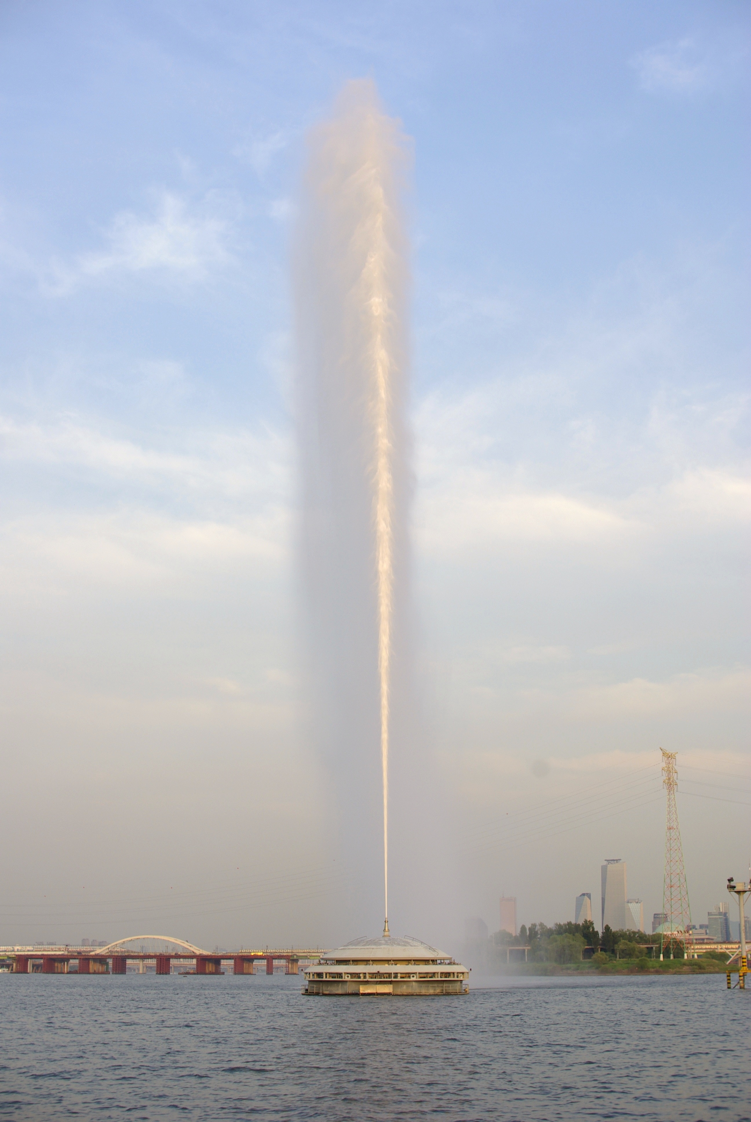 World Cup Fountain which is located on the Han River.